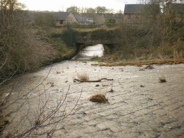 Green Brook As it goes over the weir and under Knotts Lane Bridge